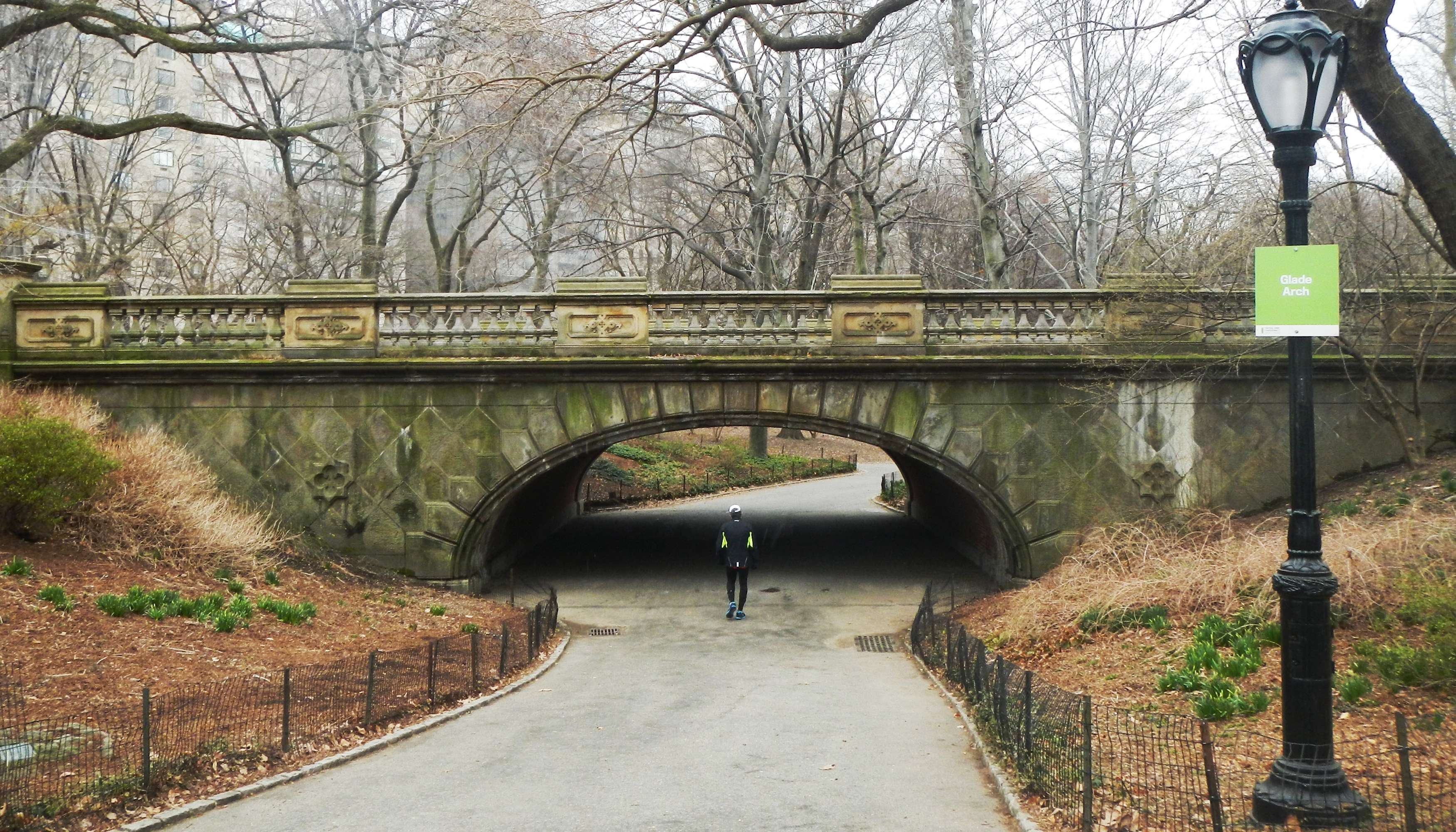 Looking south at Glade Arch on a cloudy day.